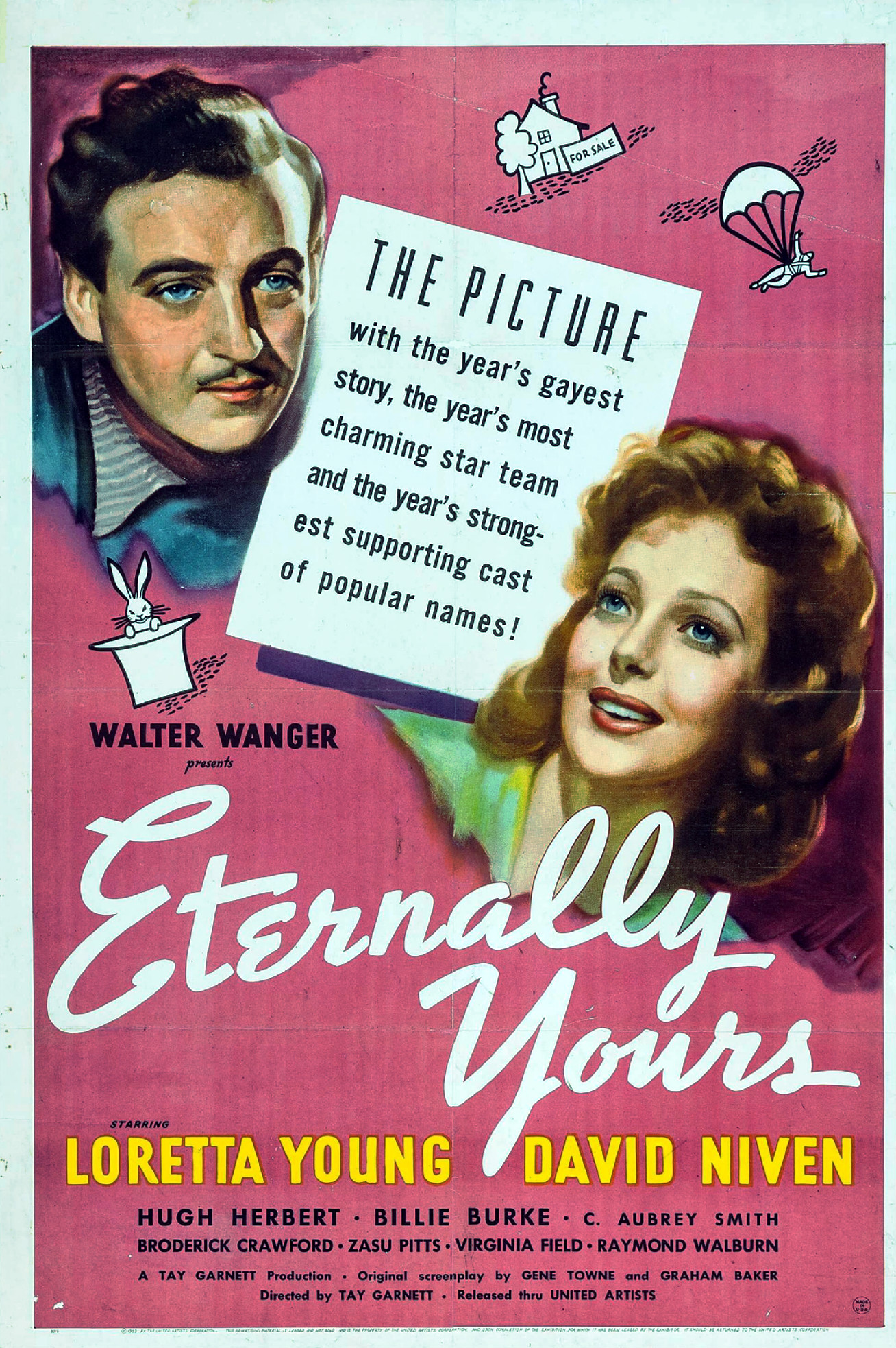 Poster for the 1939 film Eternally Yours. Renewal searches were done in film and artwork for the years 1966 and 1967 There were no listings for the title in film nor any for the title or United Artists in artwork. There's no evidence that copyright continues on the film, artwork or other items related to this film.